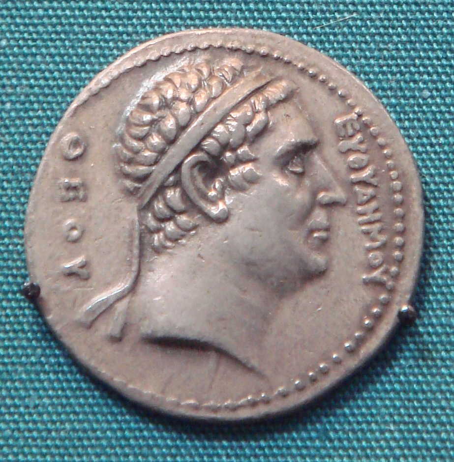 Agathokles Coin With Euthydemus Theou